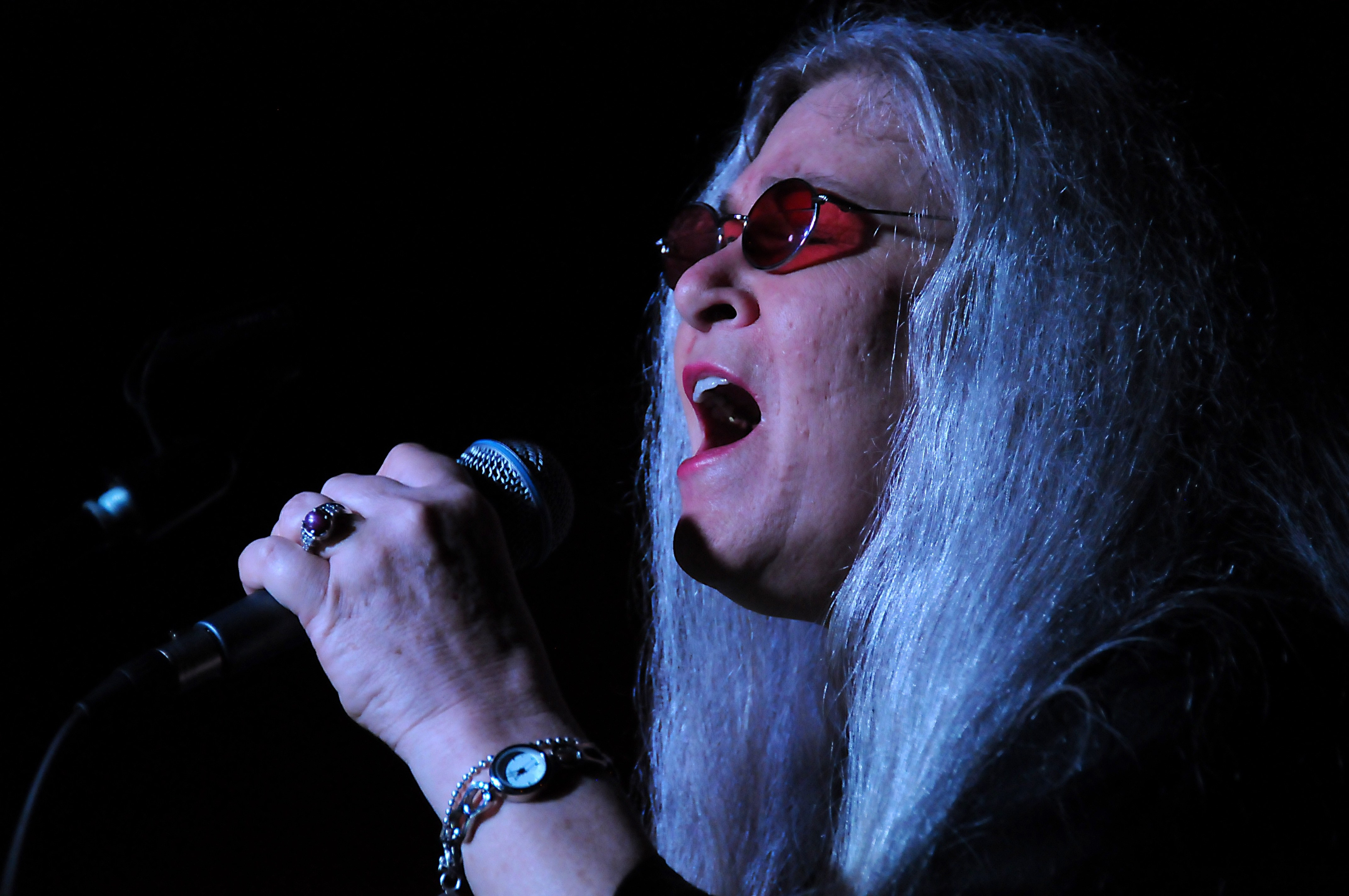 Donna Jean Godchaux singing with the Donna Jean Godchaux Band 11/6/09 in a venue Attitudes, Blacksburg Virginia